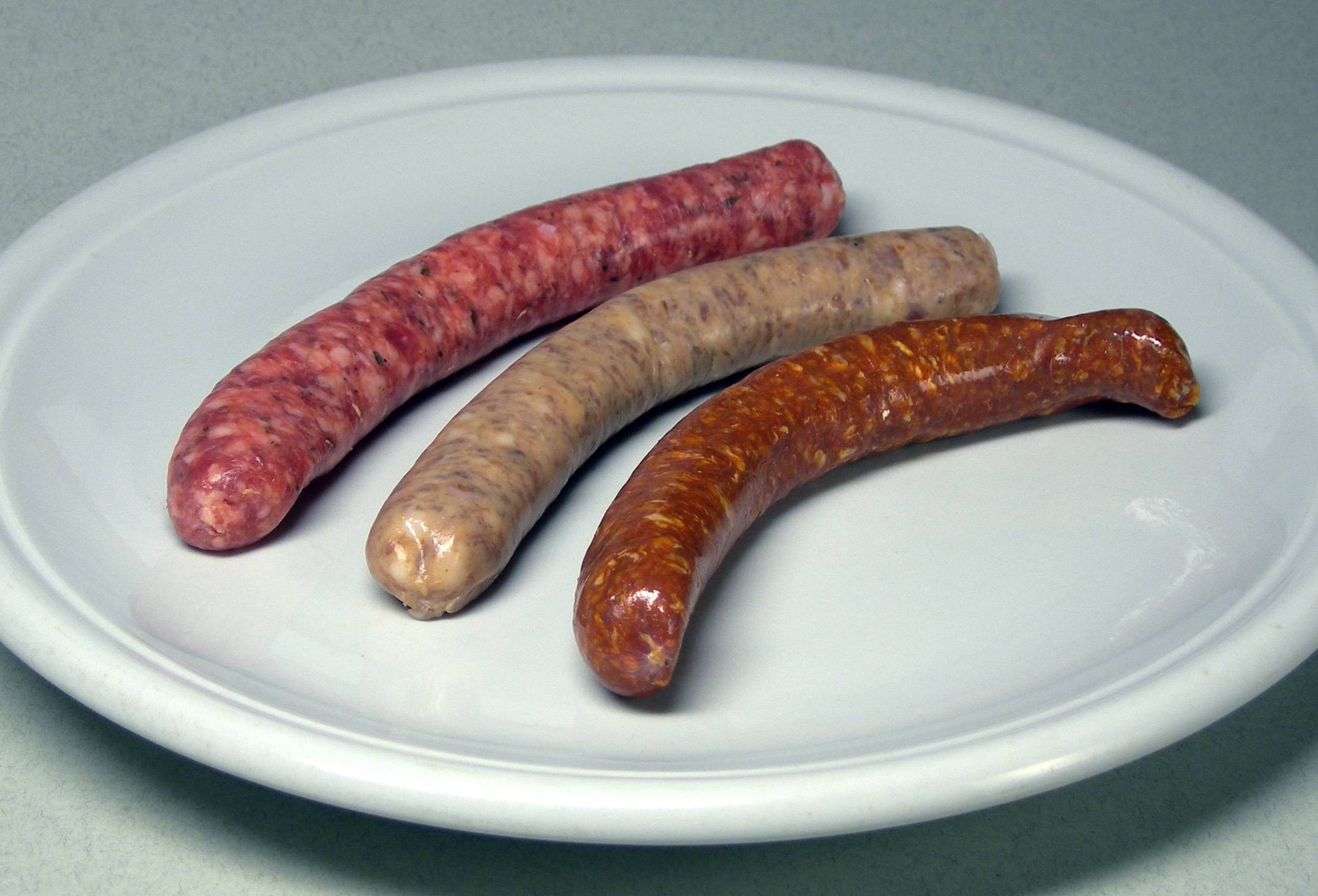 French sausage made out of duck meat, Italian sausage made out of pork and Moroccon Merguez made out of lamb, not cooked